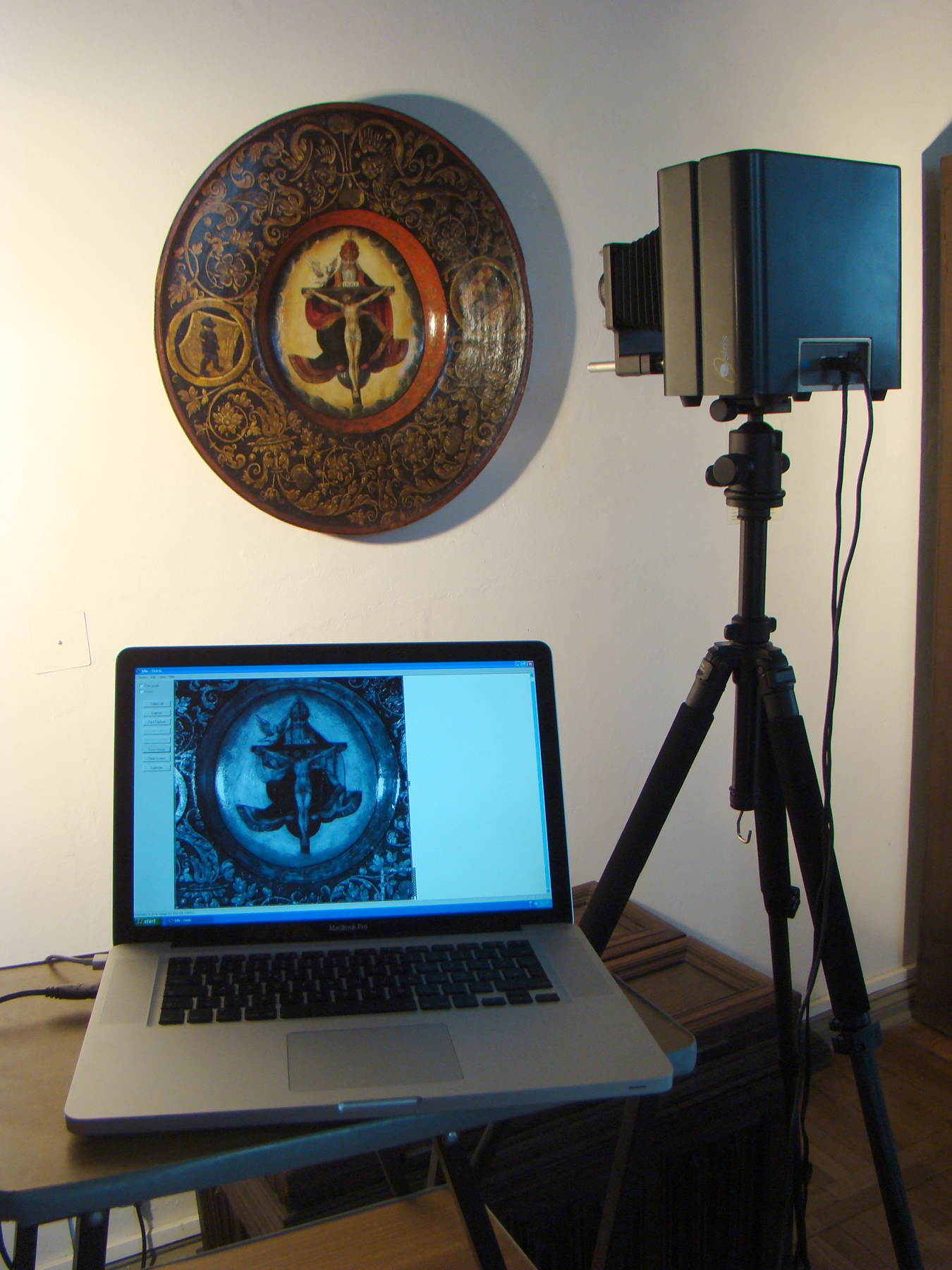 Infrared reflectographic research on a wooden wedding plate, painted with holy trinity, signed HK (Hans Kemmer) and dated 1540, museum at castle Güstrow. IRR research by Cranach Research Institute with Opus Osiris A1 on april 2nd, 2012.